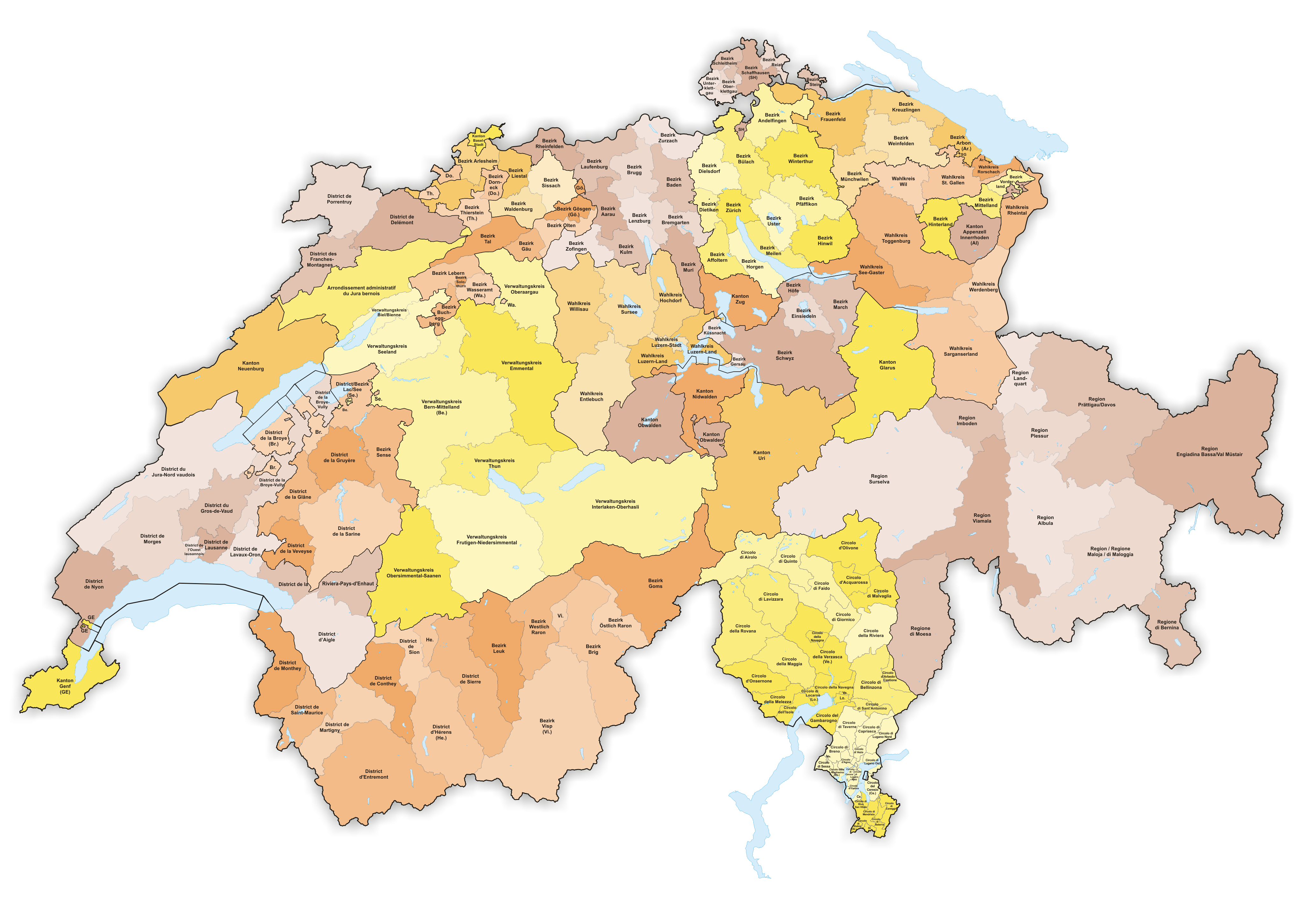 Districts and Sub Districts in Switzerland